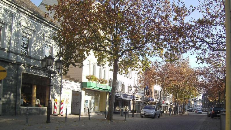 The square Gereonsplatz in Viersen, Germany.